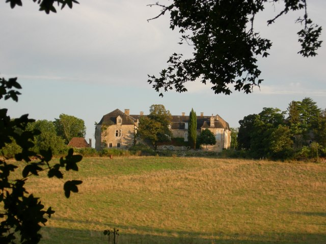 Castle of La Pannonie, between Rocamadour and Gramat (Quercy)